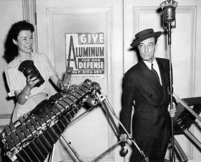 Publicity photo of Buster Keaton and WAAB radio show host Ruth Moss. The radio station was part of the Yankee Network, which was on the air from 1930 to 1949.